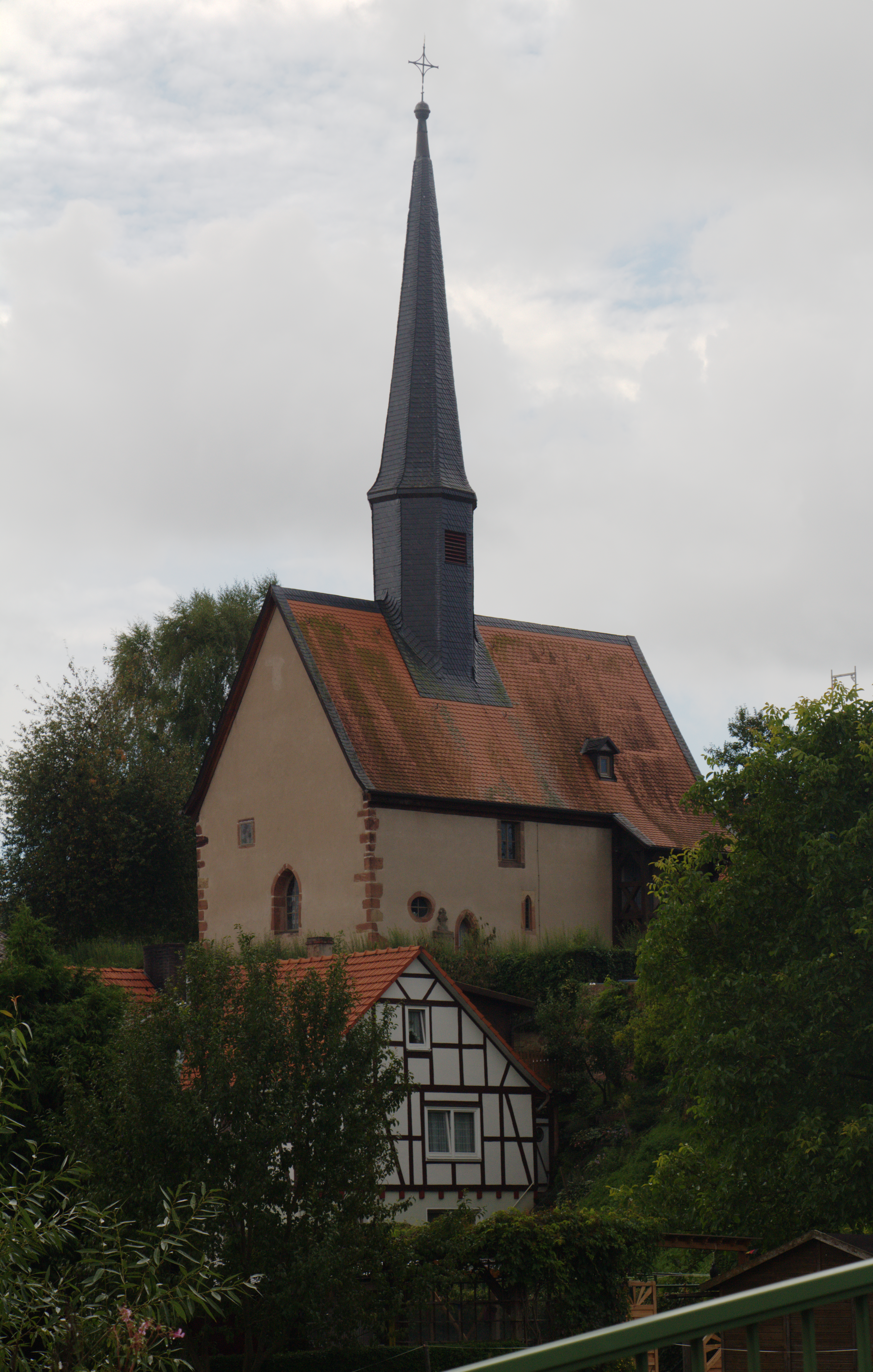 Protestant Church in Hartershausen, Schlitz, Hesse, Germany